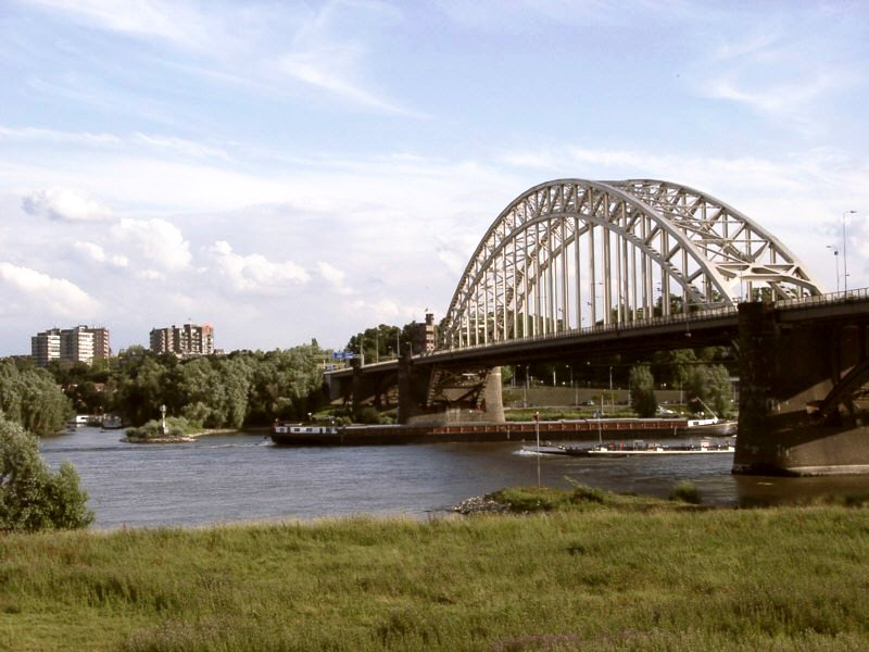 Waalbrug (Bridge over the Waal) at Nijmegen, Netherlands